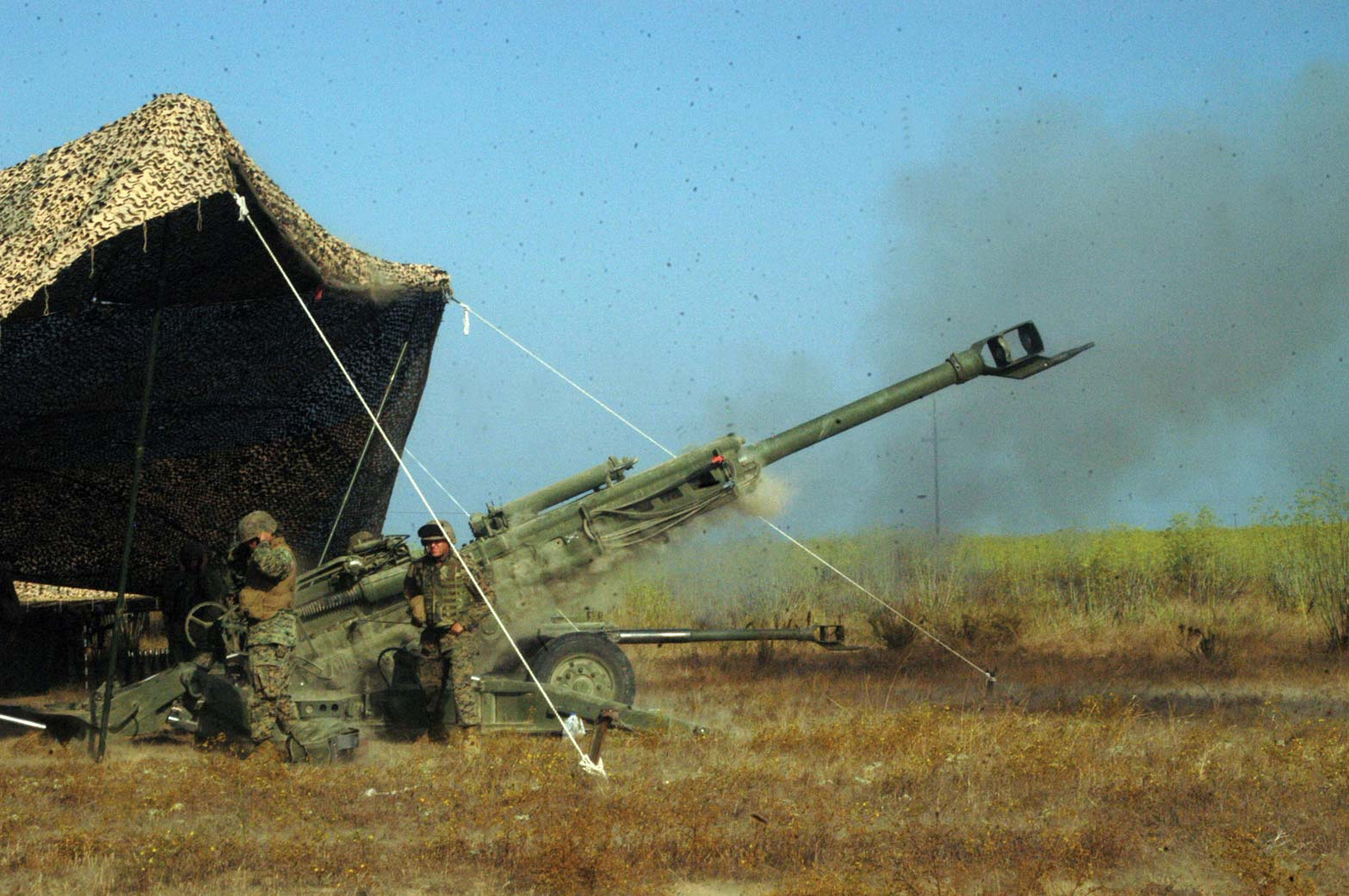 M777 howitzer. "Marines with 2nd Battalion, 11th Marine Regiment, send a round high into the air with the new M777 Howitzer. This was the first time it was fired at Camp Pendleton".